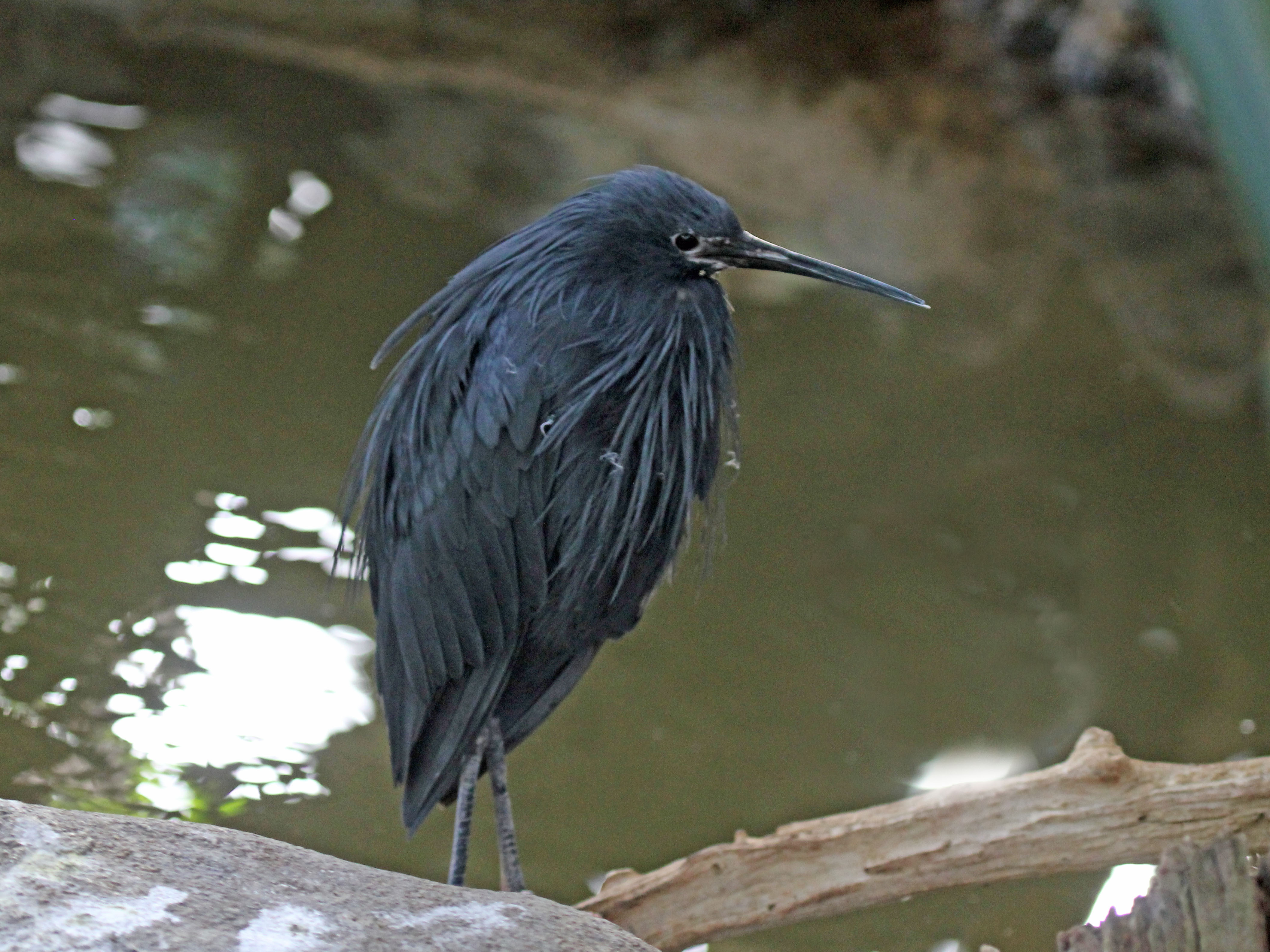 Black Heron (Egretta ardesiaca) - San Diego Zoo